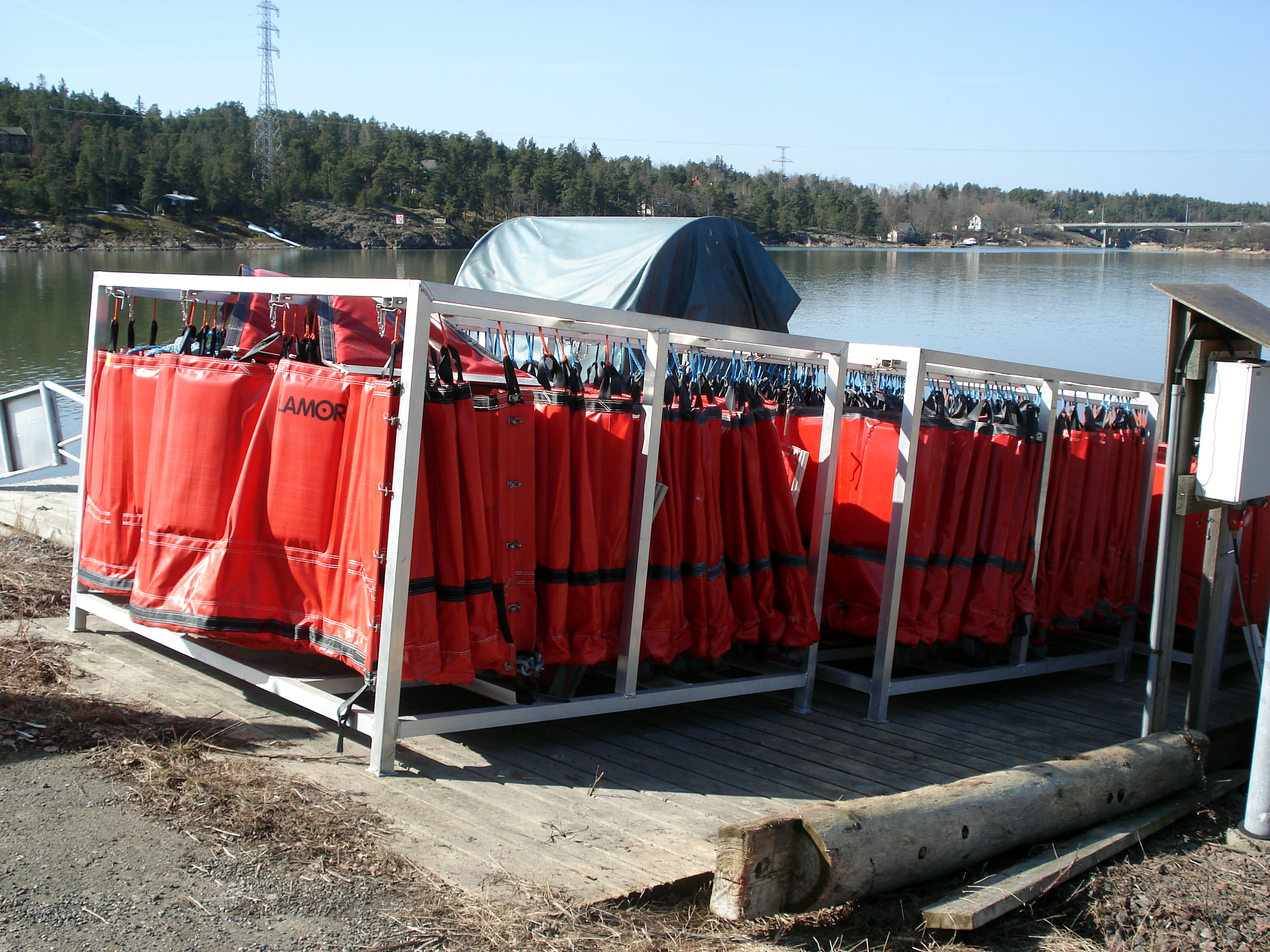 Oil containment booms at Port of Naantali, Finland.